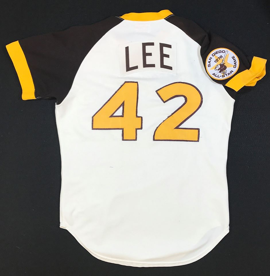 1978 San Diego Padres #42 Mark Lee Game Worm Home Jersey restored and photographed by William F. Henderson who may be contacted at the website thedream.shop.